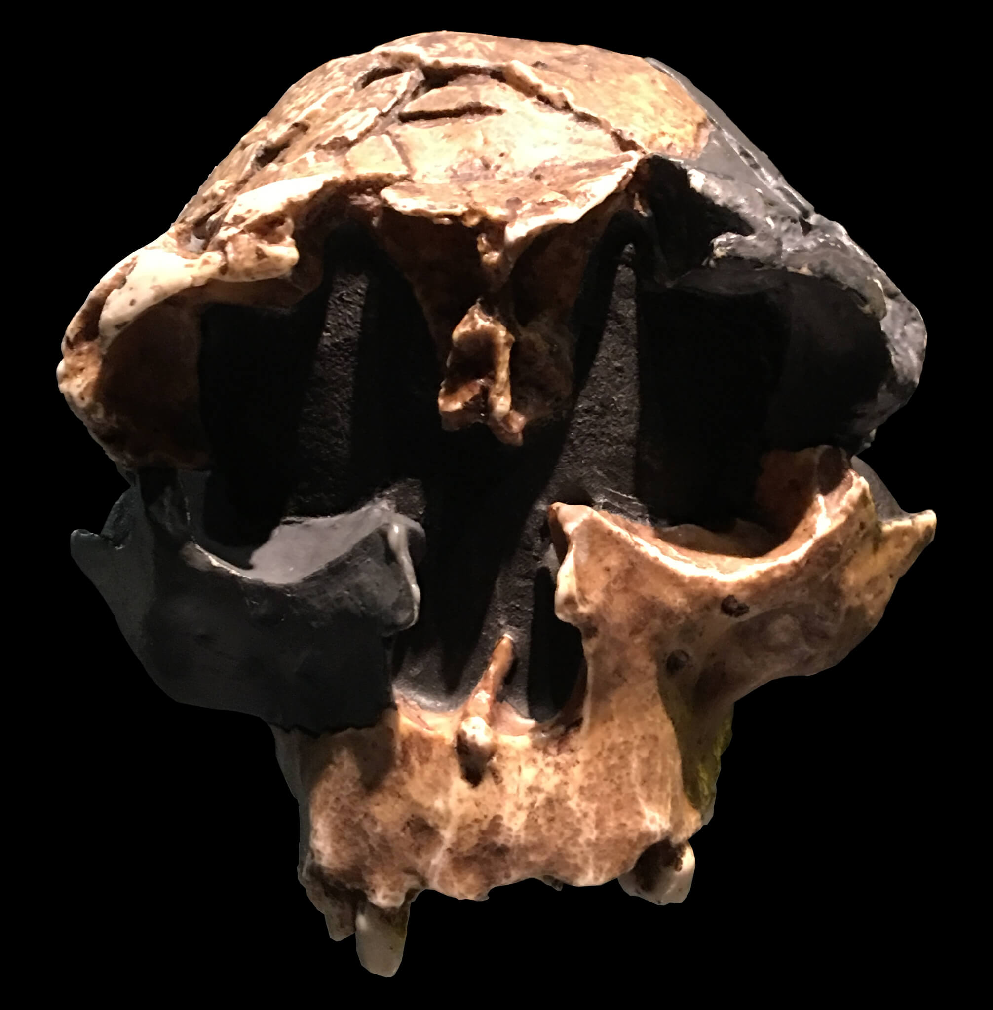 Homo antecessor child. NHM London.